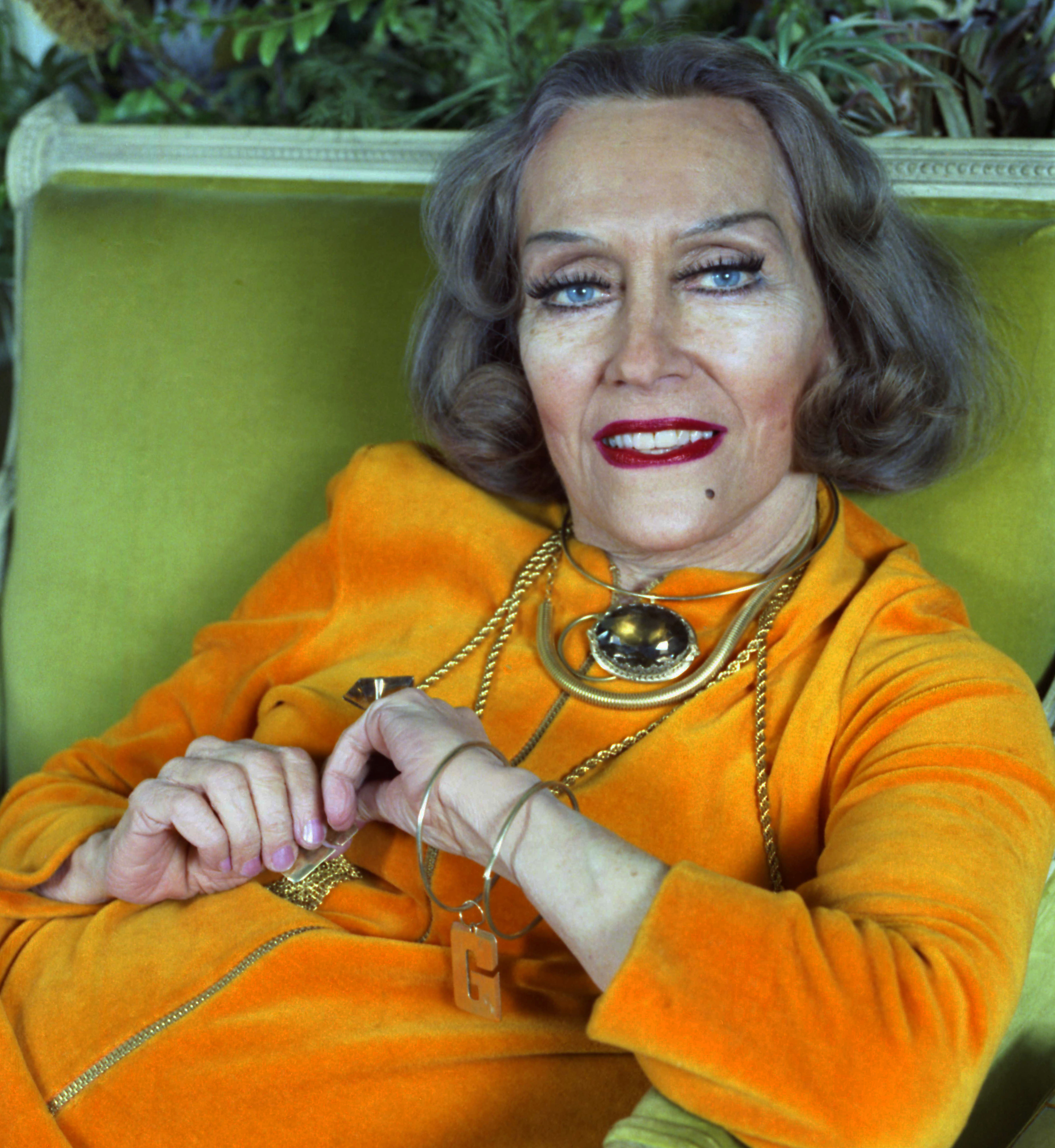 Gloria Swanson in her apartment 5th Avenue New York